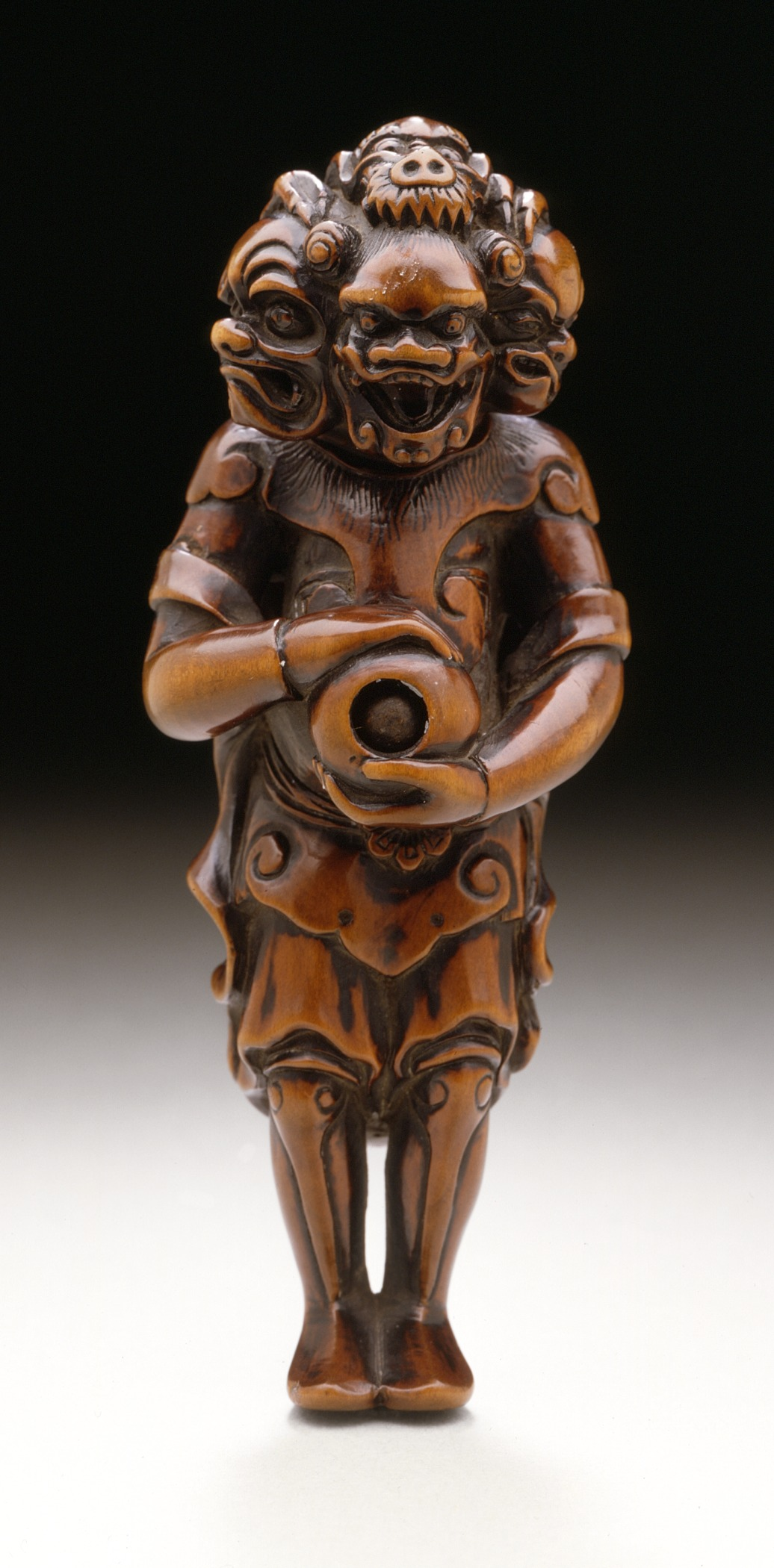 Japan, 18th century Costumes; Accessories Wood 3 3/4 x 1 7/16 x 1 3/8 in. (9.6 x 3.7 x 3.5 cm) Raymond and Frances Bushell Collection (M.91.250.287) Japanese Art Currently on public view: Pavilion for Japanese Art, floor 2